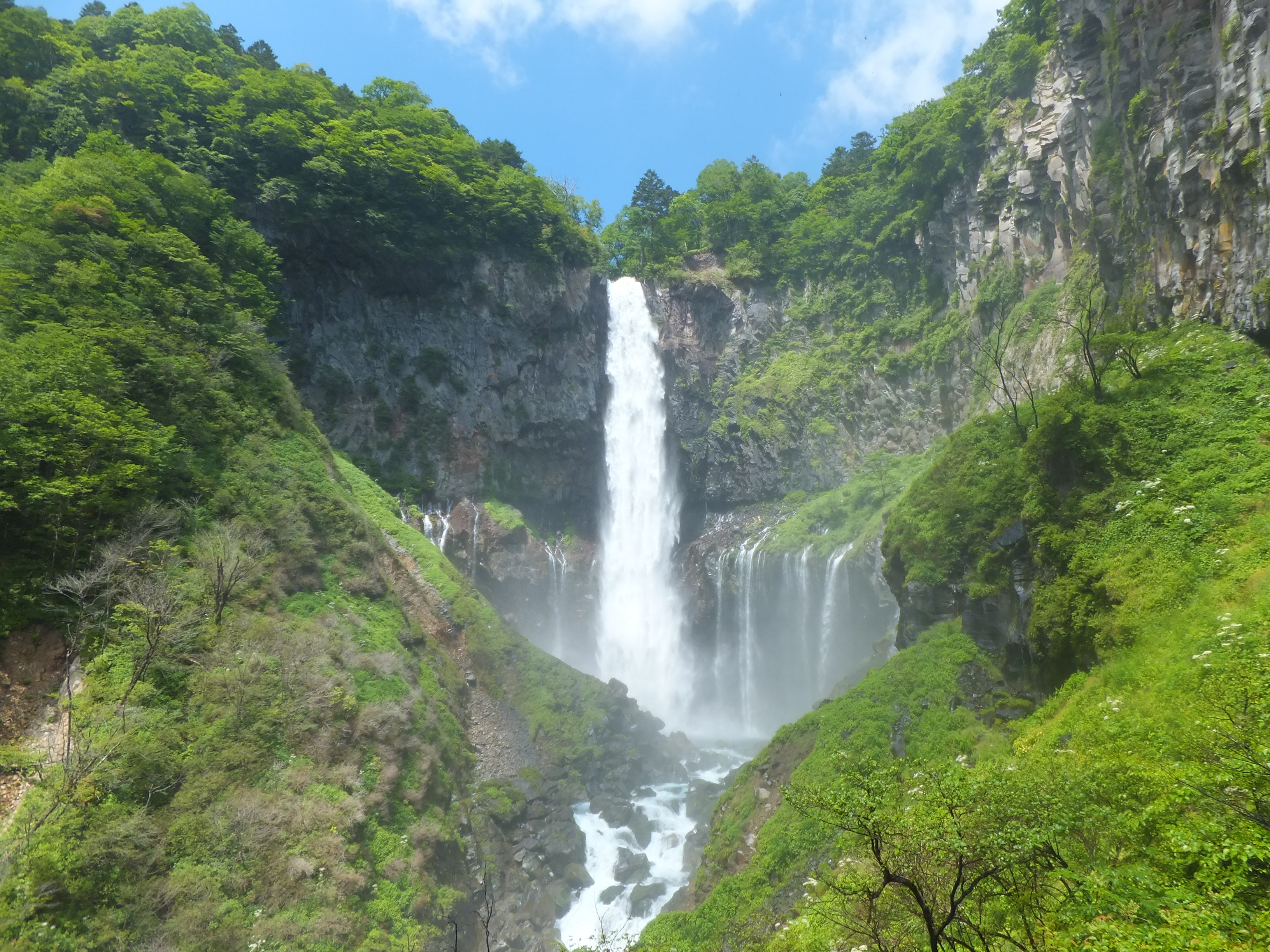 A photo taken from a man-made observation platform below Kegon Falls.